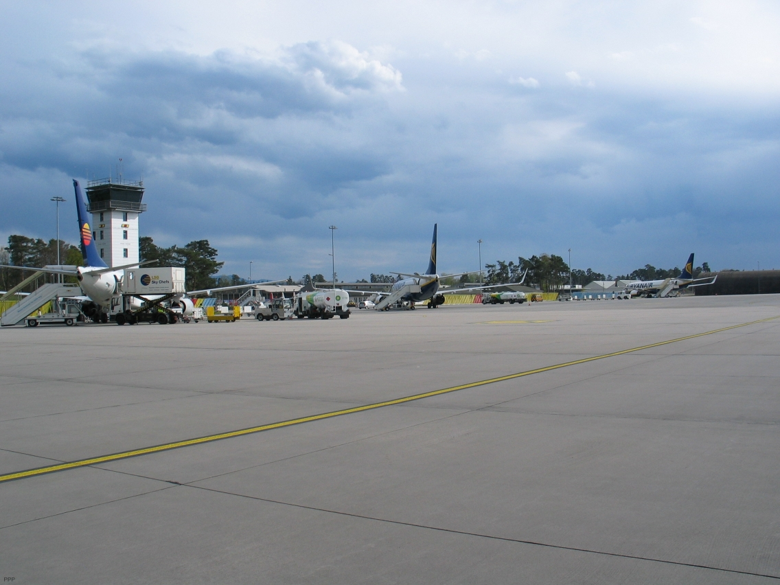 Baden Airpark: Apron 2